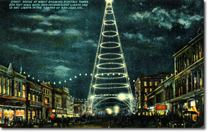 Postcard of night view of electric light tower in San Jose California, circa 1910.